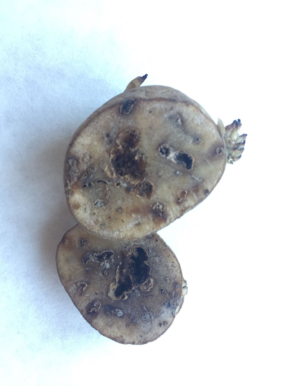 Potatoes attacked by Tecia solanivora (comparison)